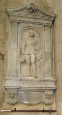 Memorials to a former MP of the City For more details see Guy Baring. CWGC casualty details.